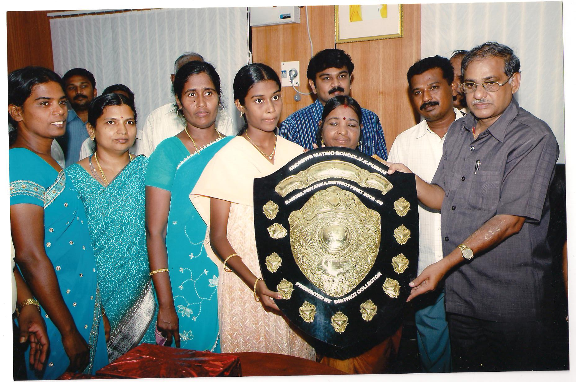 The photo was taken when the school student got tirunelveli district first in 2008-2009 tamil nadu matriculation board exam